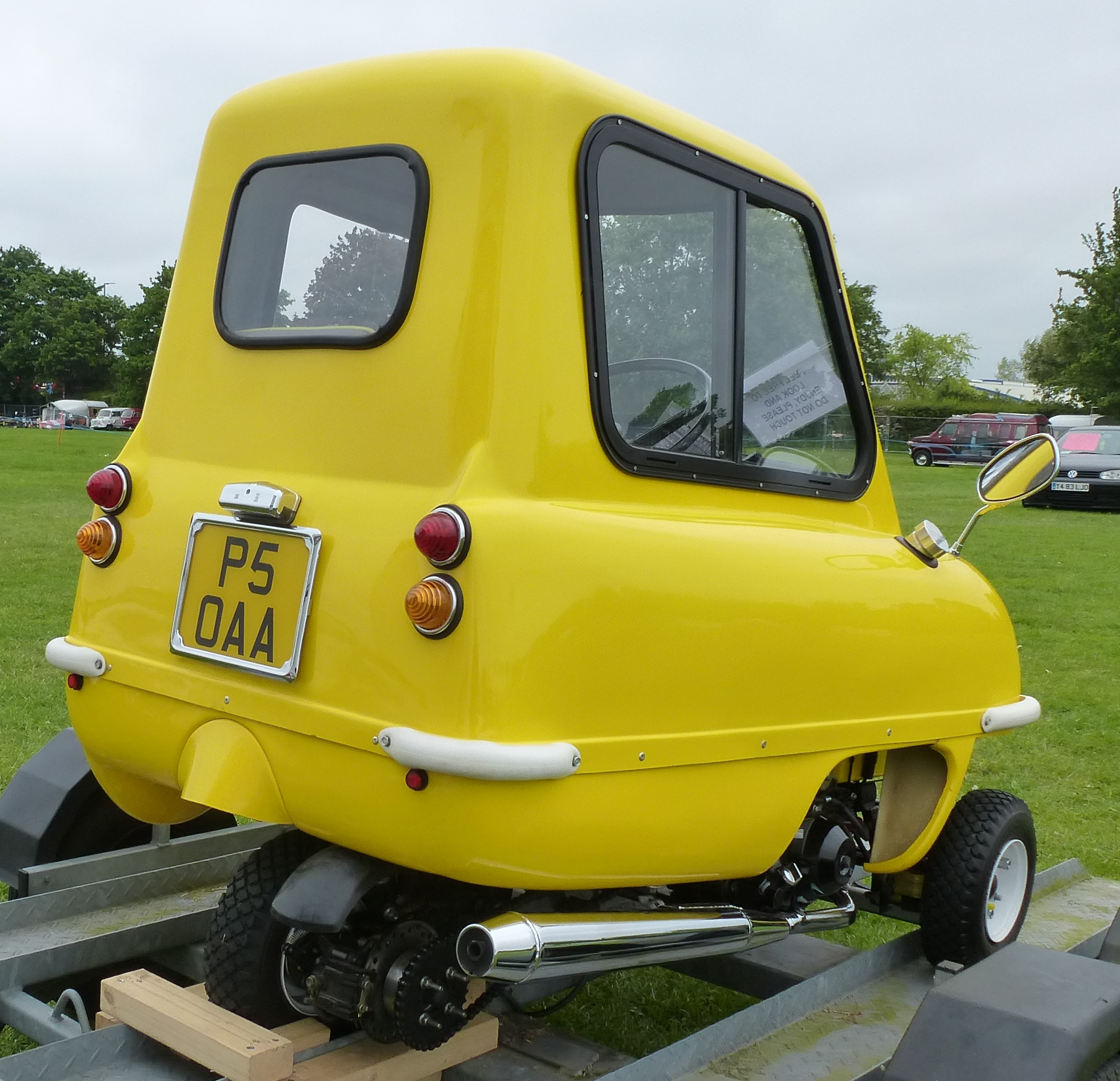 Bamby P 50 2015